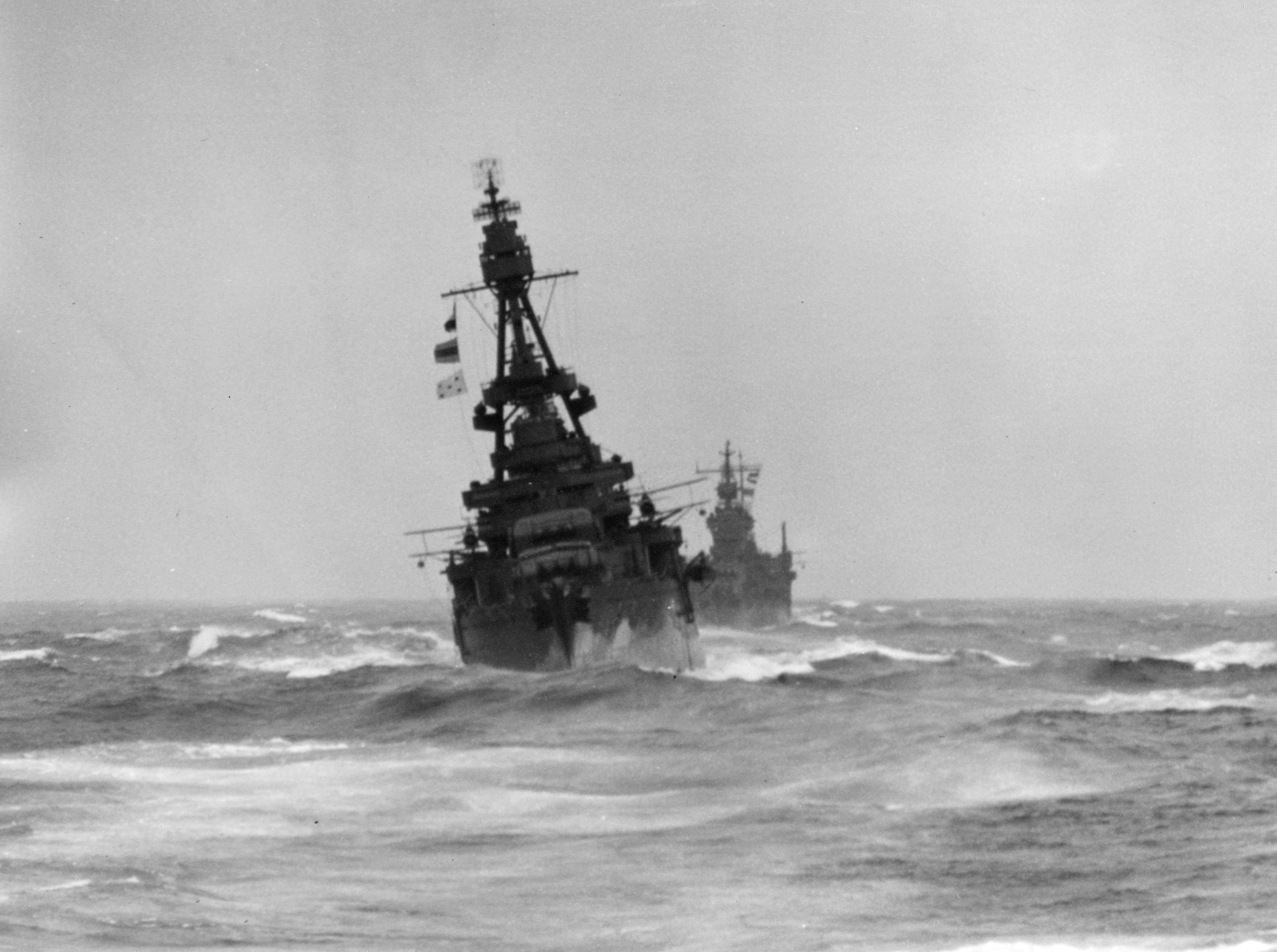 The U.S. Navy heavy cruiser USS Louisville (CA-28) operating in the Bering Sea during May 1943. She is followed by USS San Francisco (CA-38).